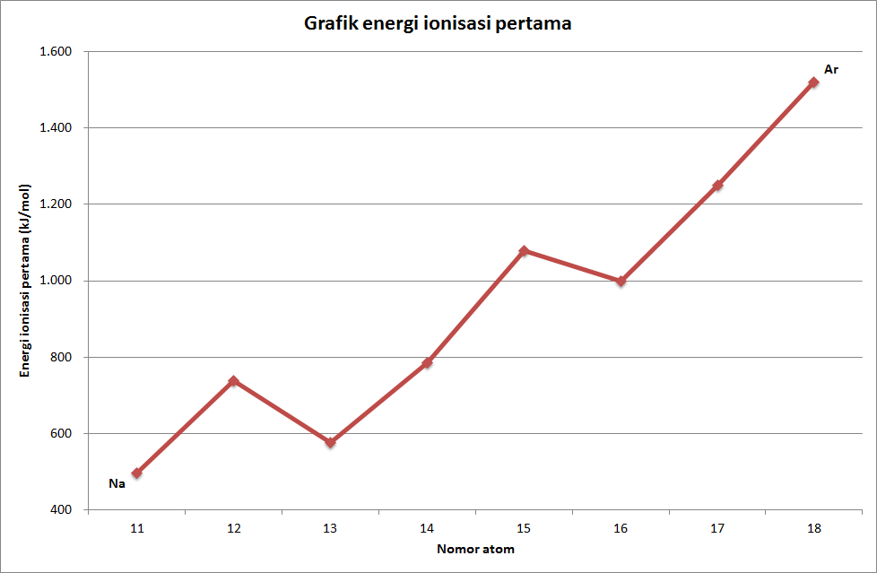 Graphical periodic trend of period 3 elements for the first ionisation energy